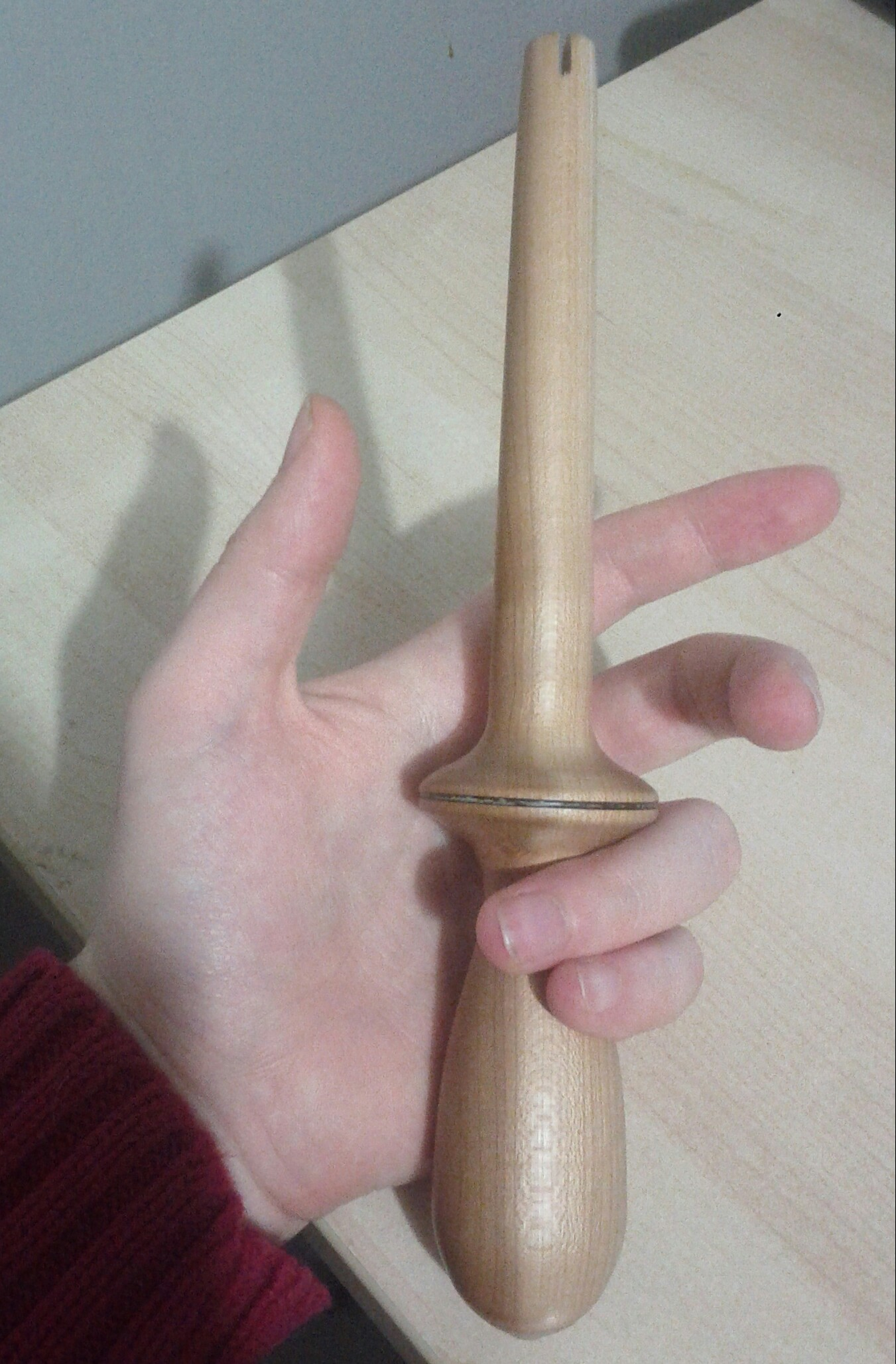 cherry nostepinne